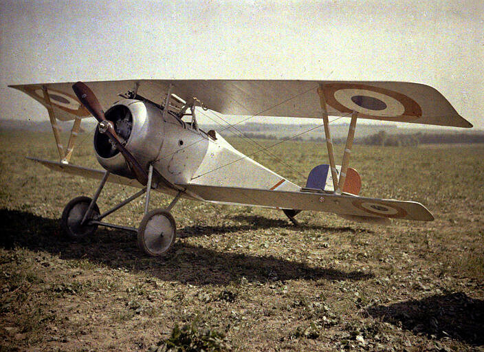 A Lumière Brothers "Autochrome" of a Nieuport 23 C.1 fighter The Nieuport 17 had a centered Vickers machine gun, the 23 as here was offset. Other details were minor. May, 1917. Two other Autochrome images of camouflaged Nieuports also exist; a Nieuport 11 photographed in April of 1916 and an earlier built Nieuport 10 image taken at a Belgian flying school.